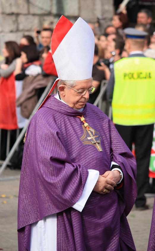 Pogrzeb pary prezydenckiej.